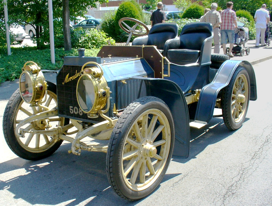 Daimler Motoren Gesellschaft - Mercedes Simplex from 1902 in Stuttgart-Untertürkheim: Mercedes-Benz Museum Stuttgart